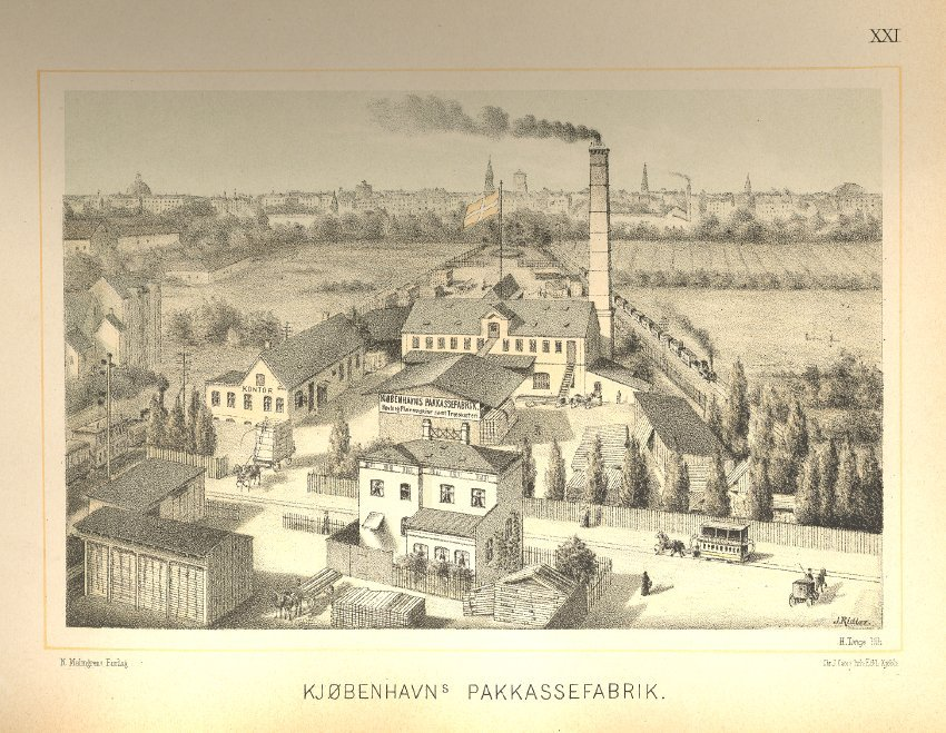 Kjøbenhavns Papkassefabrik in Copenhagen, Denmark